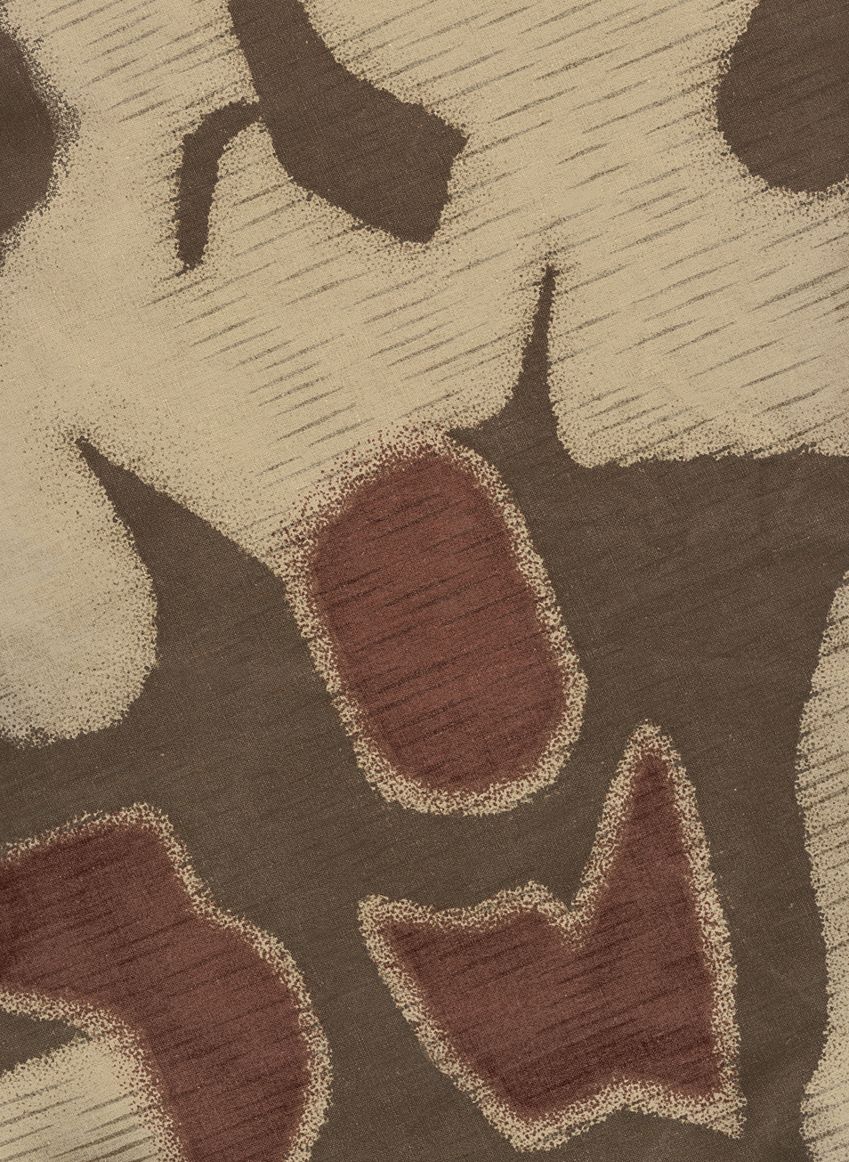 BGS-Sumpftarnmuster, old colours